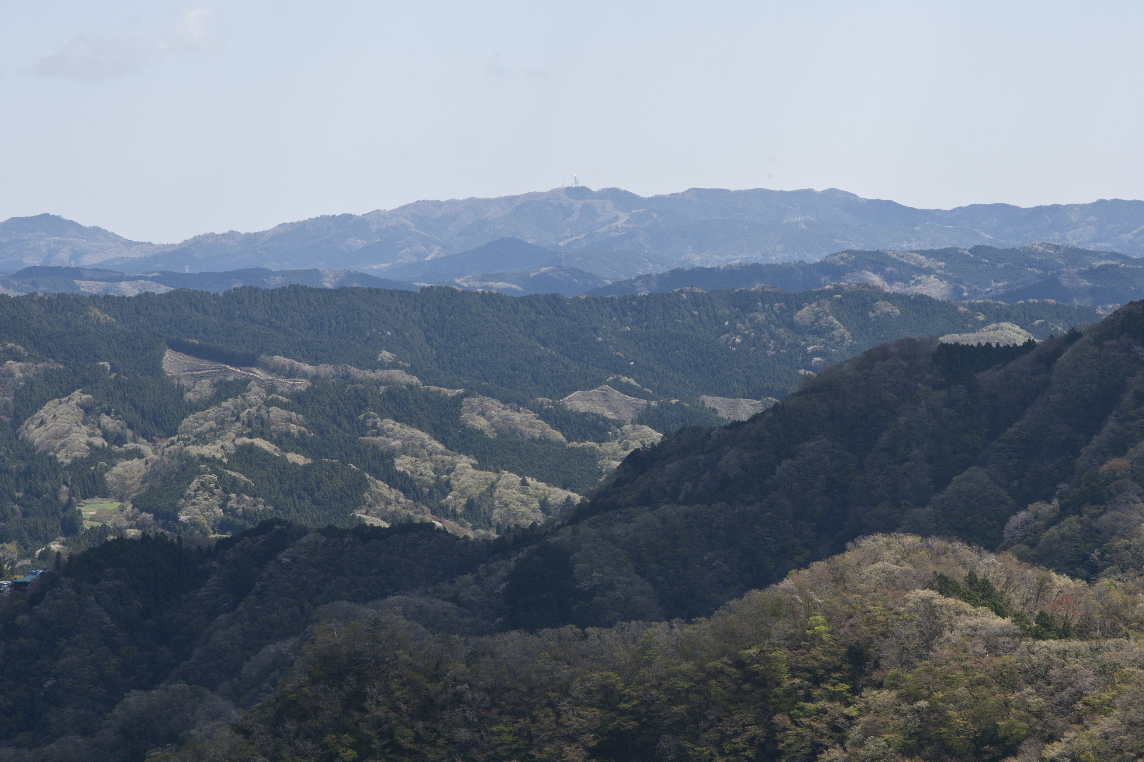 Mount Takasuzu, Hitachi and Hitachi-Ota, Ibaraki Prefecture, Japan.